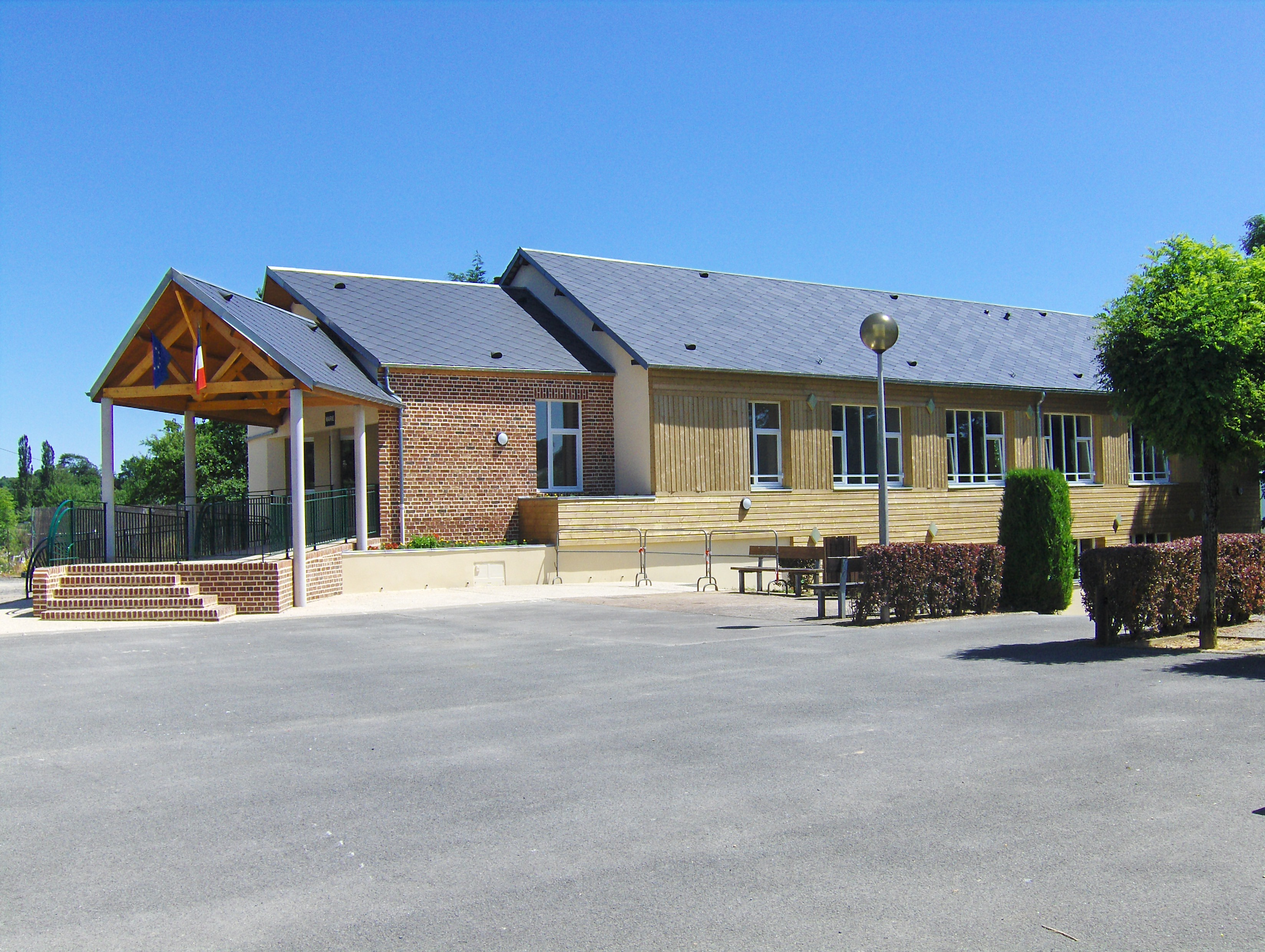 Town hall of municipalities of Voulpaix